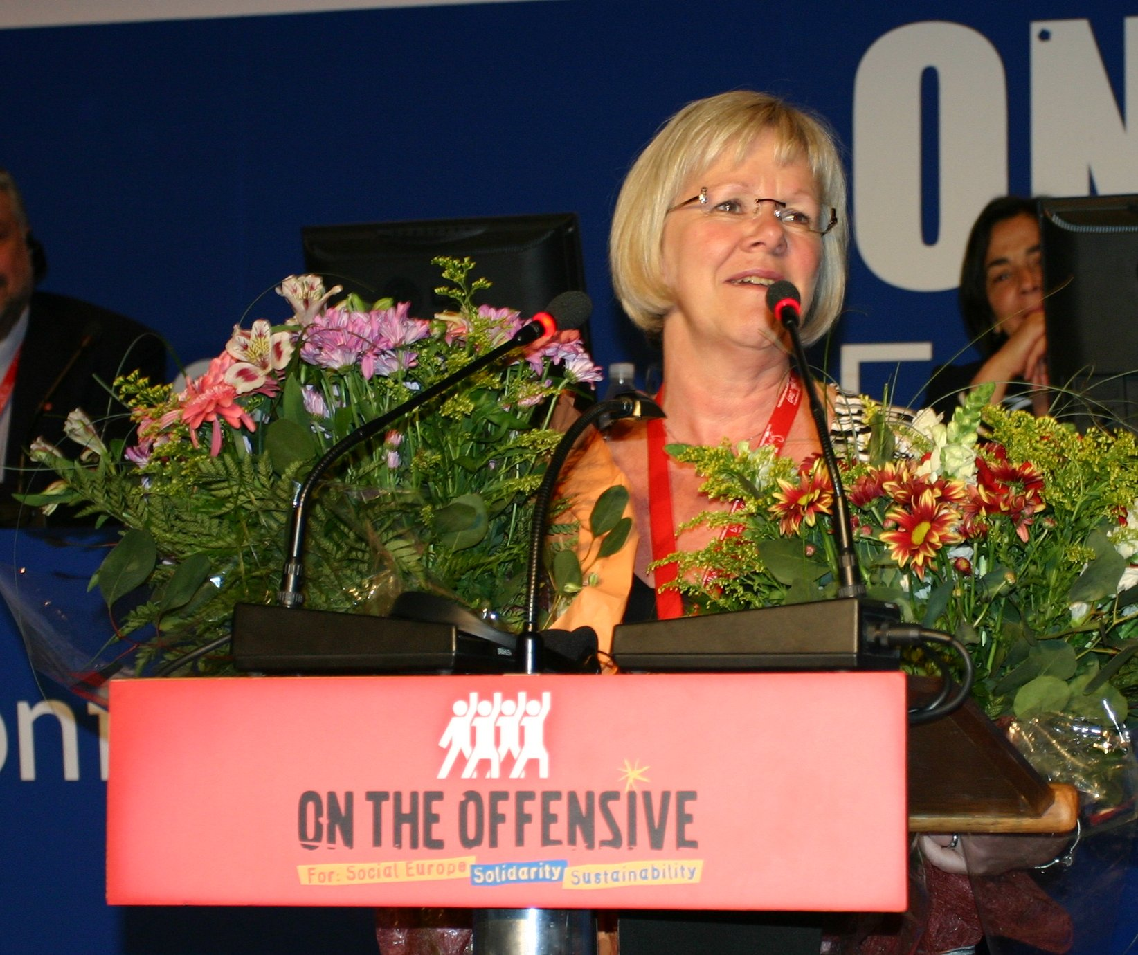 Wanja Lundby-Wedin, President of LO-Sweden, President of the ETUC (European Trade Union Confederation)